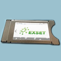 cam module